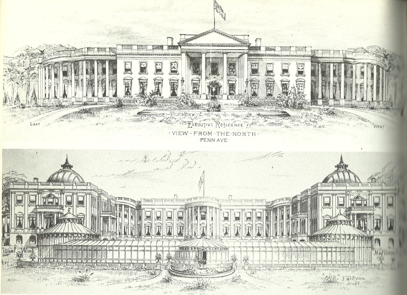 Proposed additions to the White House, drawn by Frederick D. Owen (1901)